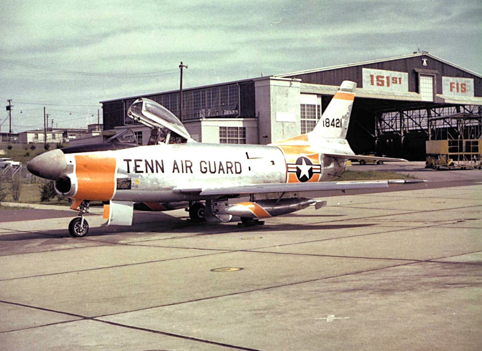 A U.S. Air Force North American F-86D-35-NA Sabre (s/n 51-8421, c/n 173-524) assigned to the 151st Fighter-Interceptor Squadron, 134th Fighter Interceptor Group, Tennessee Air National Guard, at McGhee Tyson Air Force Base, Knoxville, Tennessee, in the late 1950s. The F-86D 51-8421 was later sold to Denmark and is today on display at Aalborg Defense Museum.